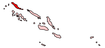 Map of the Solomon Islands showing Choiseul province. Made by User:Golbez.